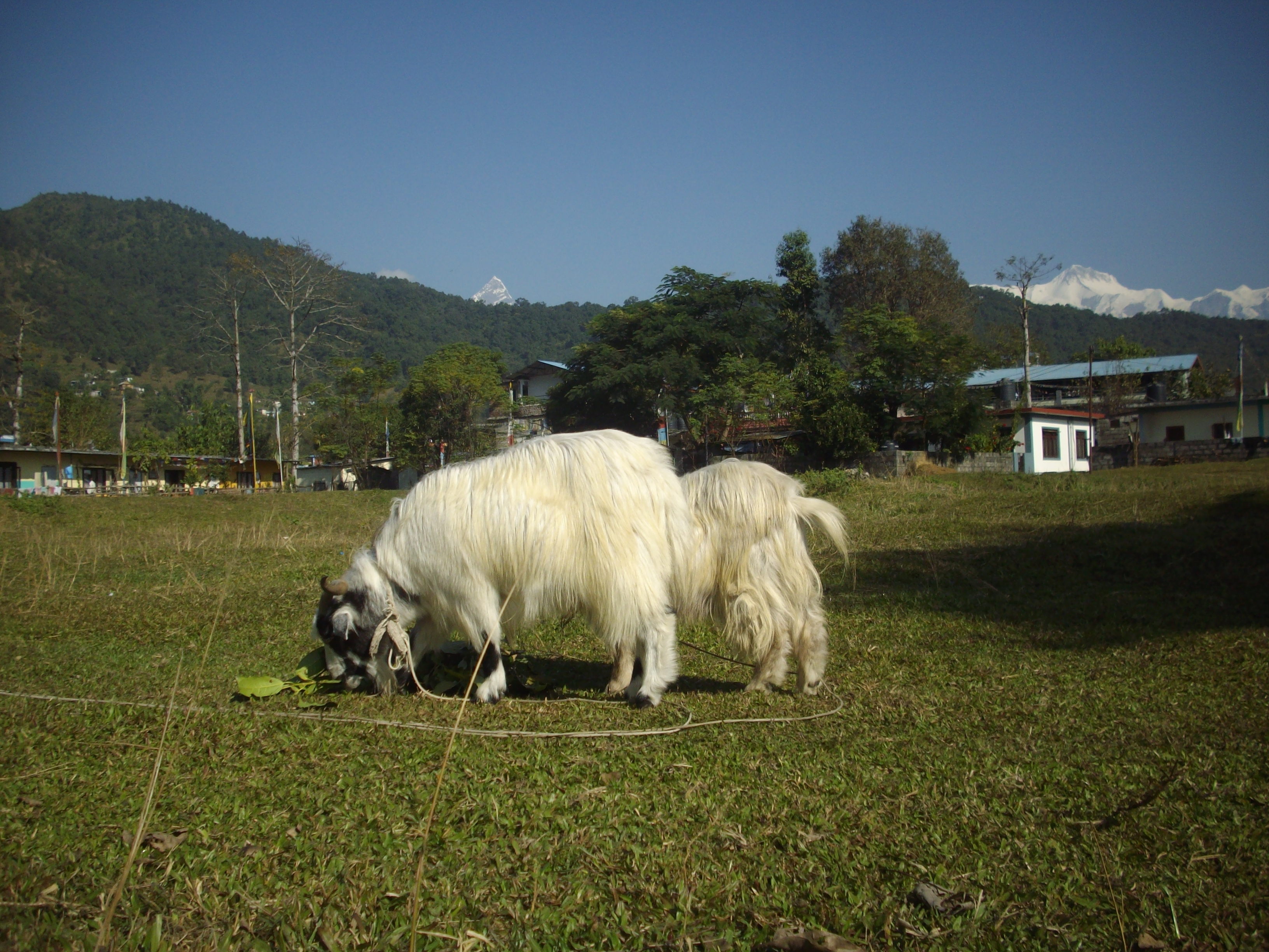 These pair of Himalayan goats were spared slaughter for "Dashain " festival at Pokhara in Nepal.They were purchased by the Tashaling Tibetan settlement monastry and are lucky to spend the rest of their lives grazing in this beautiful settlement lawns in Pokhara.The famous "PASHMINA" wool is extracted from this breed of mountain goats.